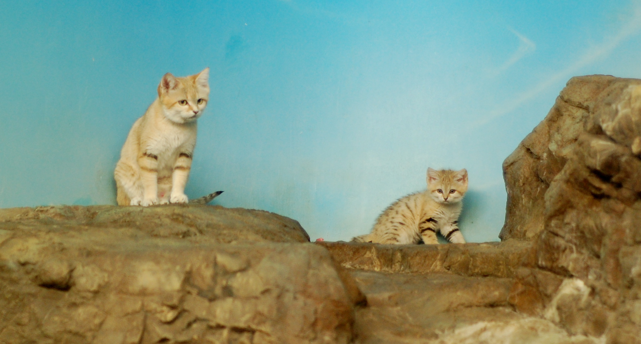 Mom and Baby Sand Cat at Cincinnati Zoo